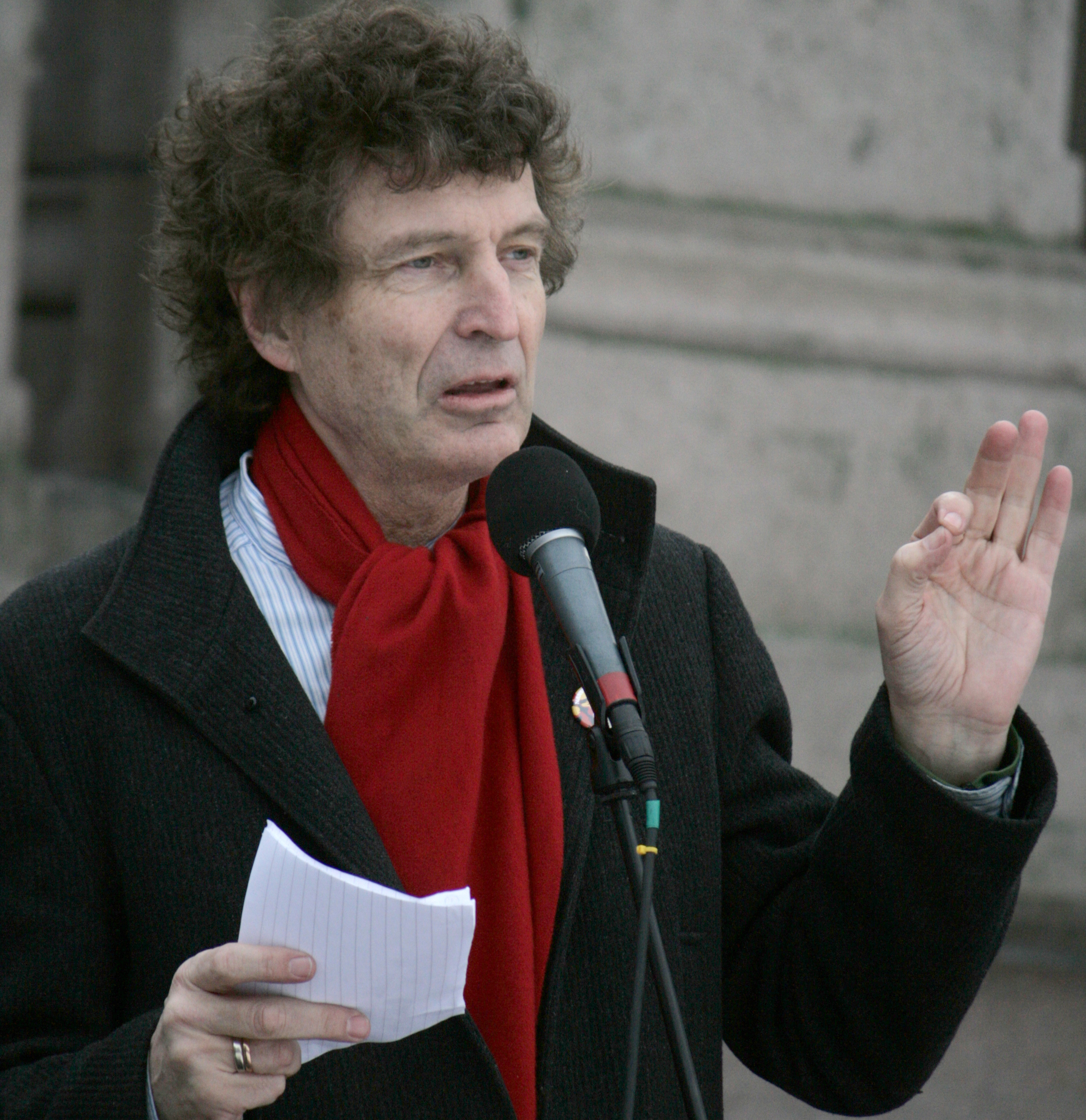 Dag Hareide, Norwegian environmentalist, headmaster at the Nansen Academy